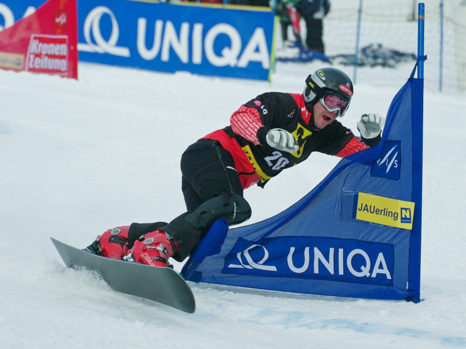 Canadian snowboarder Jasey-Jay Anderson in the qualification round of the World Cup Parallel Slalom at the Jauerling in Austria on 13 January 2012.